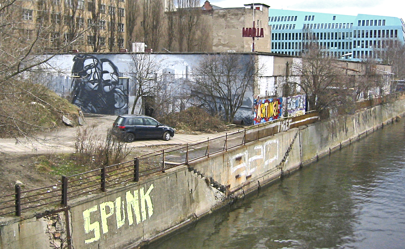 recorded by User:Nicor